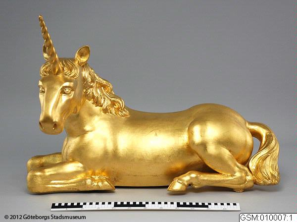 Wooden unicorn from the chemist's shop Enhörningen (The Unicorn). The shop was Gothenburg's first chemist's shop and opened in 1642 at Södra Hamngatan 13, opposite the museum, on the other side of the channel. The Unicorn operated at a new address until 1968. (GSM:010007:1)